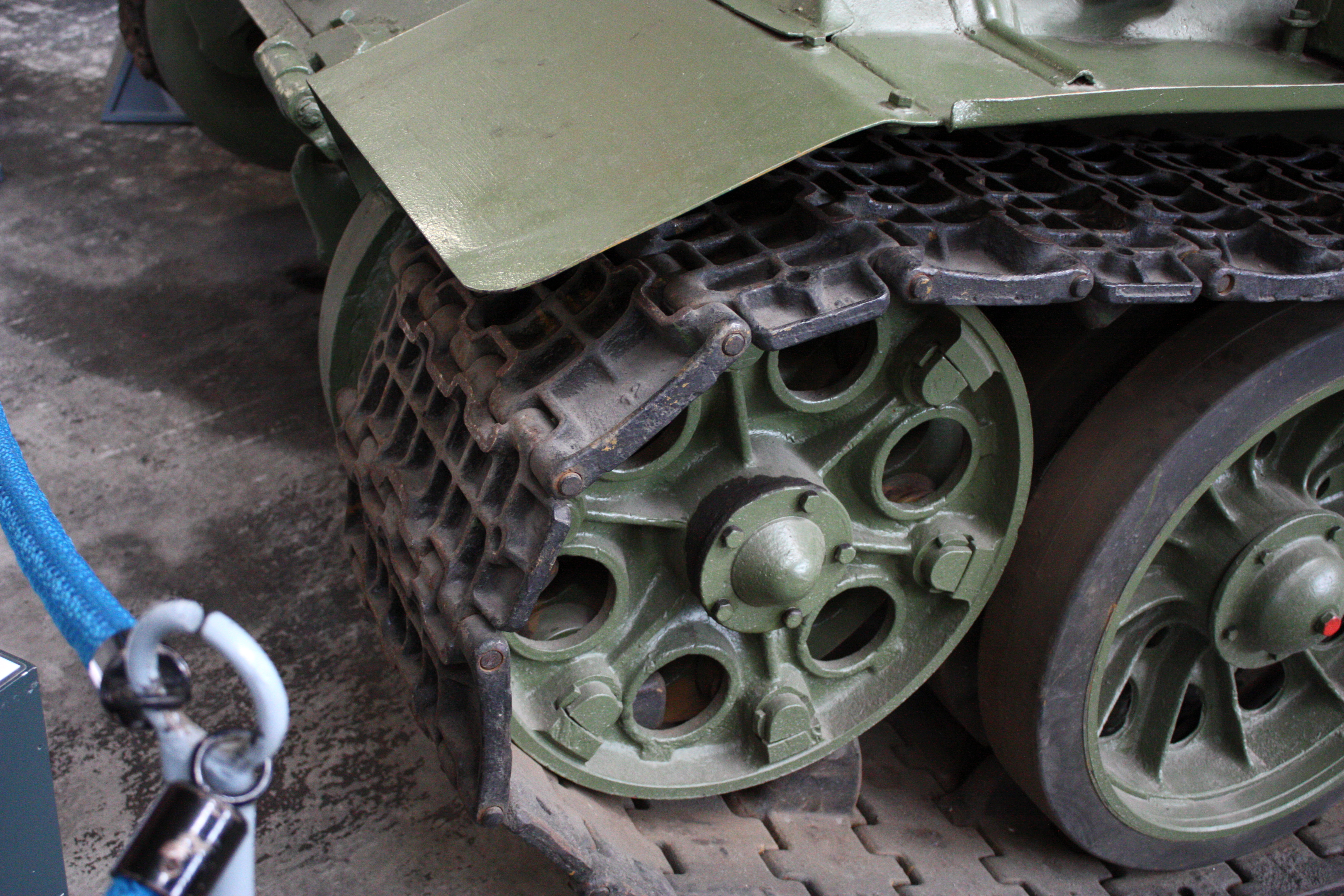 German Tank Museum